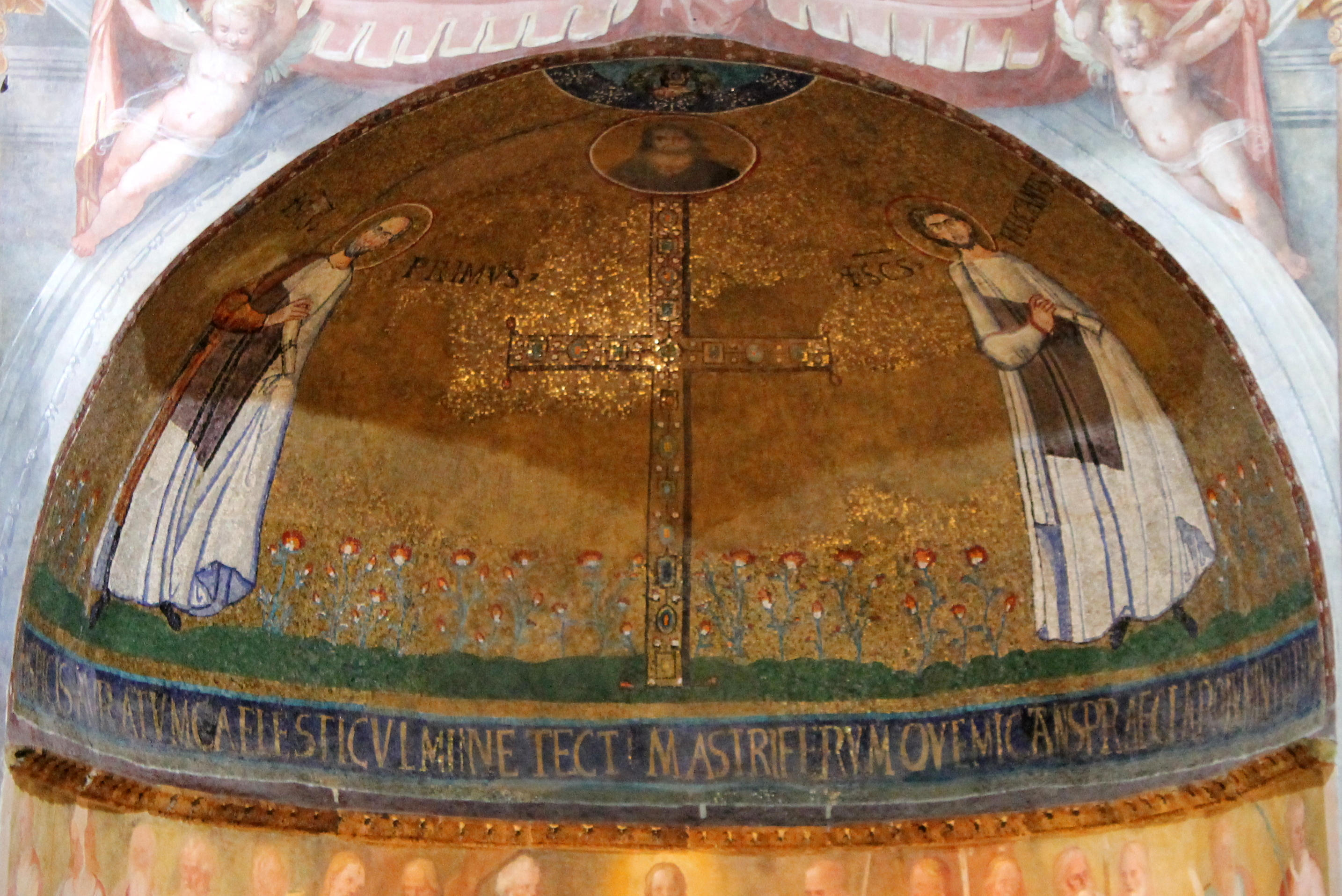 Mosaic (ca. 523–530) of Saints Primus and Felicianus, located in the Church of Santo Stefano Rotondo in Rome.